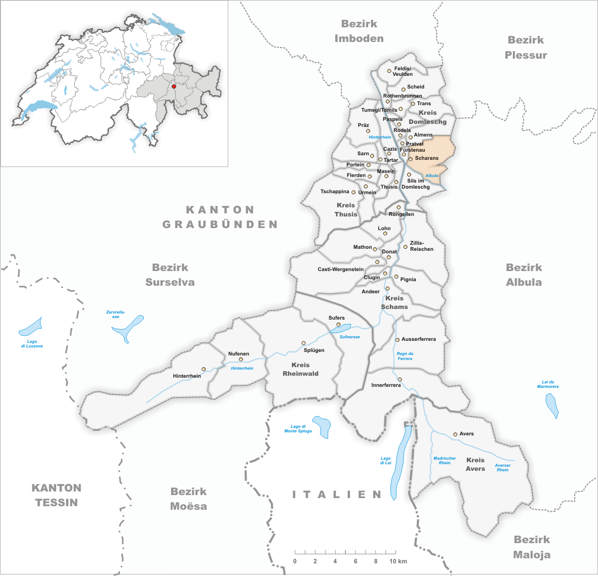 Municipality Scharans